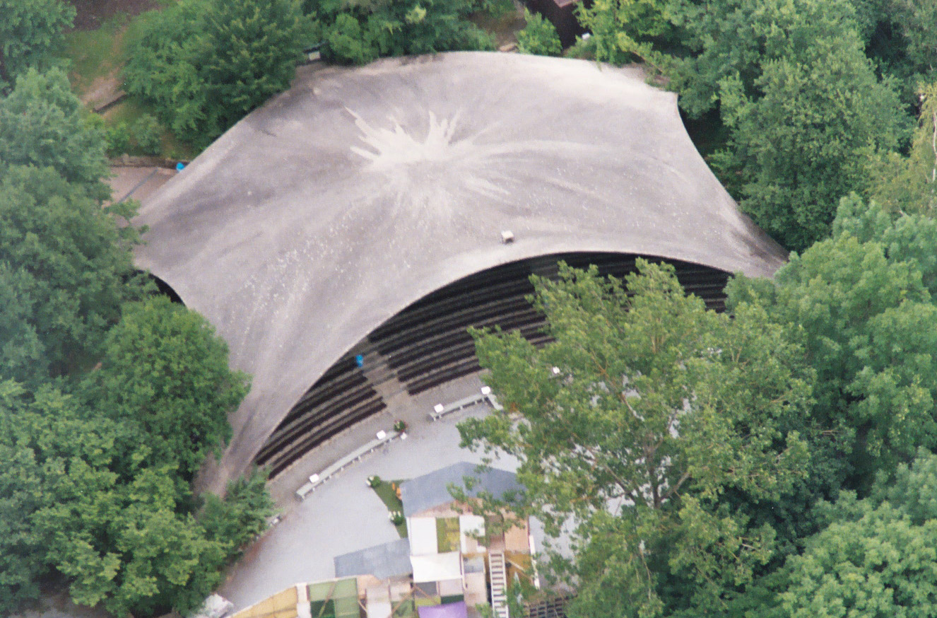 The Naturtheater Grötzingen, the building is the roof above the audience, the stage is in the front.